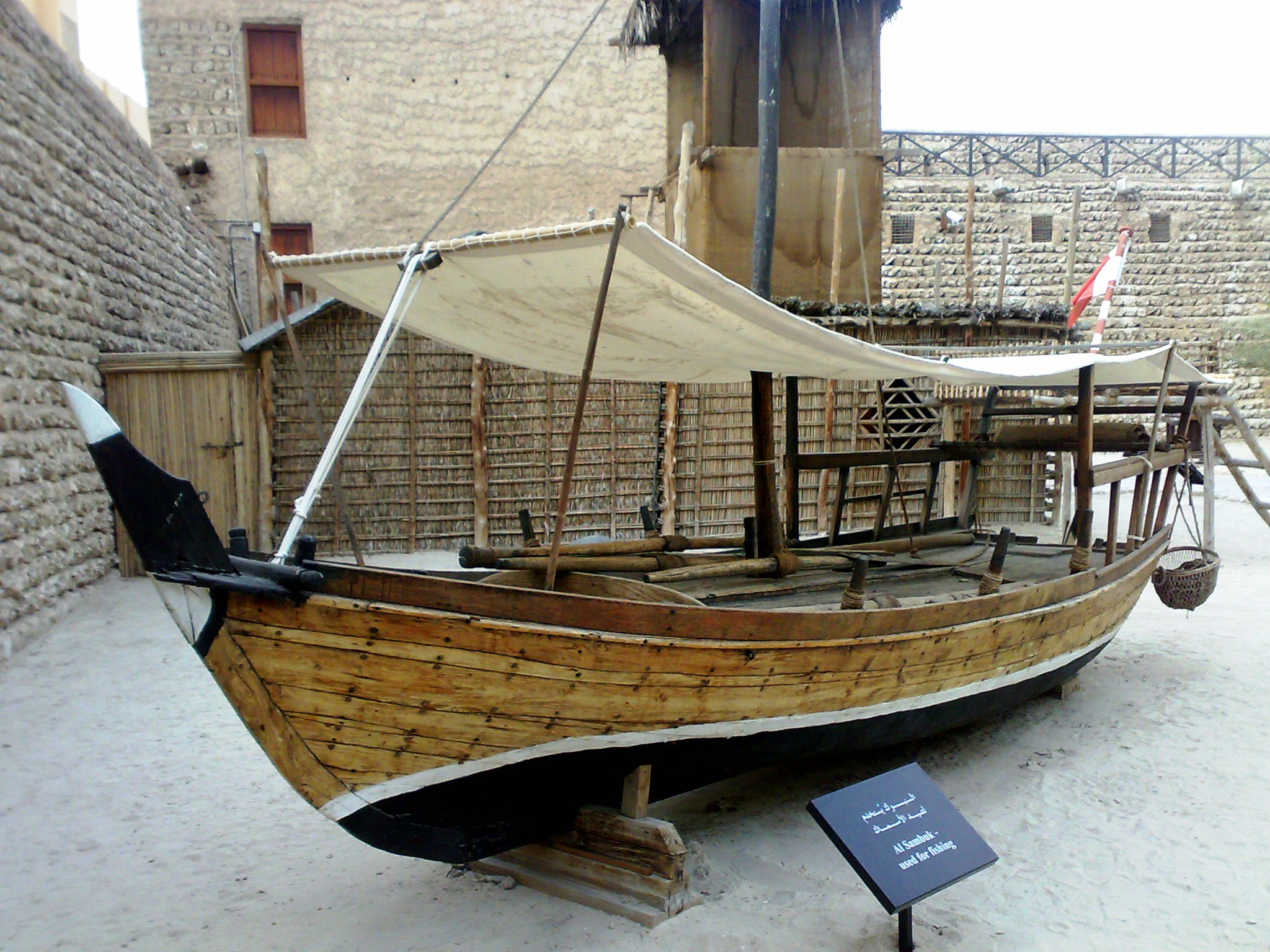 A Sambuk boat from Dubai at display in the Dubai Museum (Al Fahidi Fort), UAE